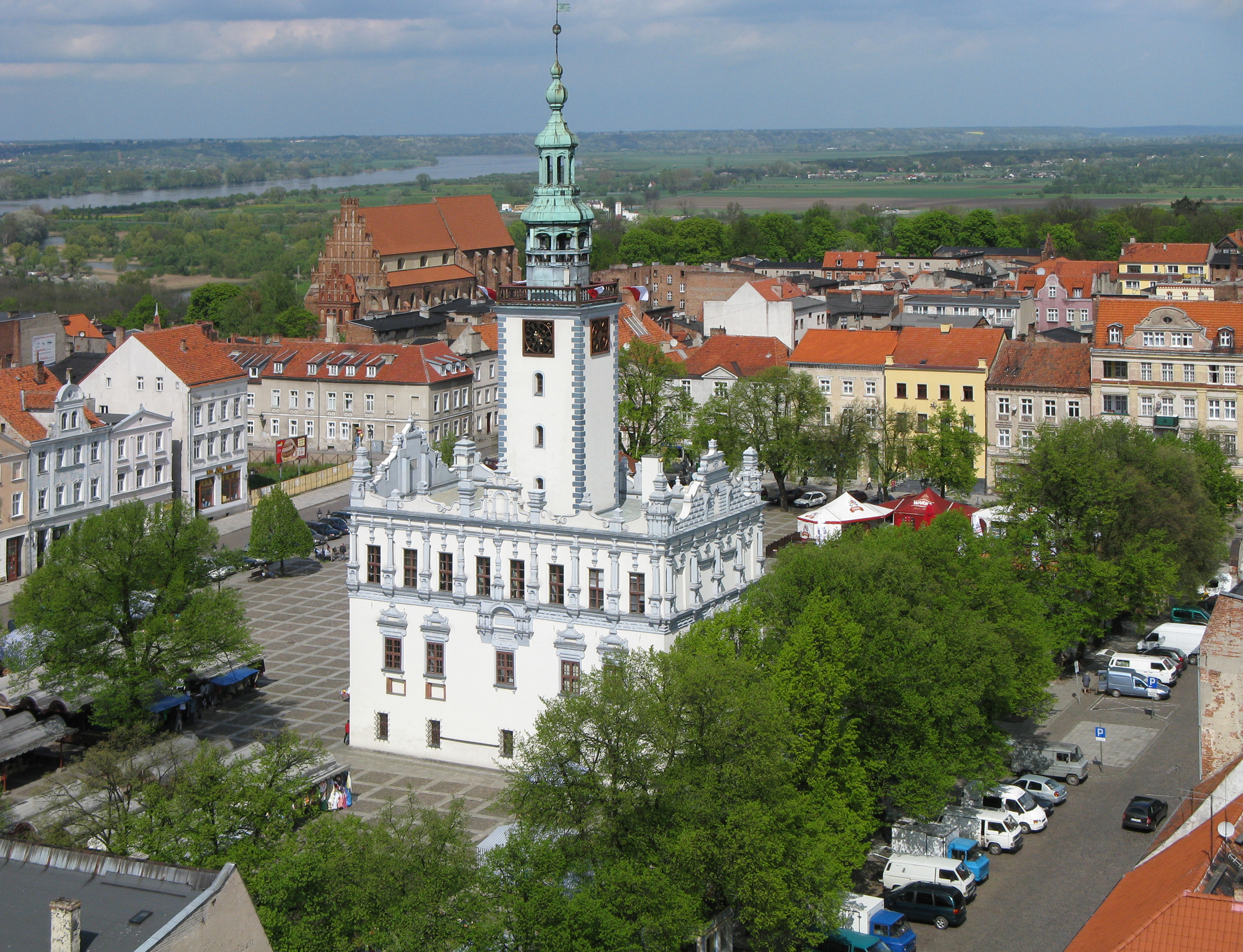 Chełmno, market square